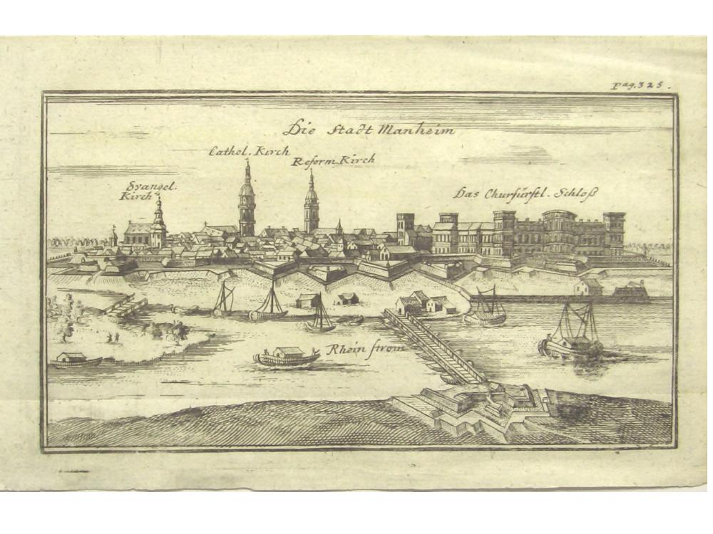 Mannheim, view from the Rheinschanze (today's Ludwigshafen am Rhein) c. 1740.